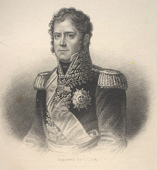 Marshal Michel Ney, Duke of Elchingen, Prince of Moscow //Engraved by C. Cook. // BLACKIE & SON, GLASGOW, EDINBURGH & LONDON.